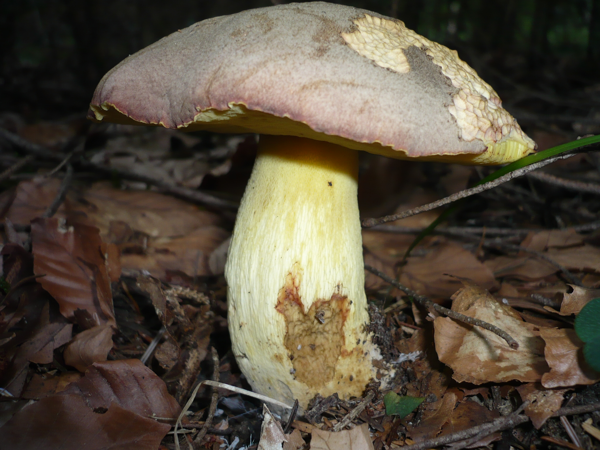 Boletus fechtneri